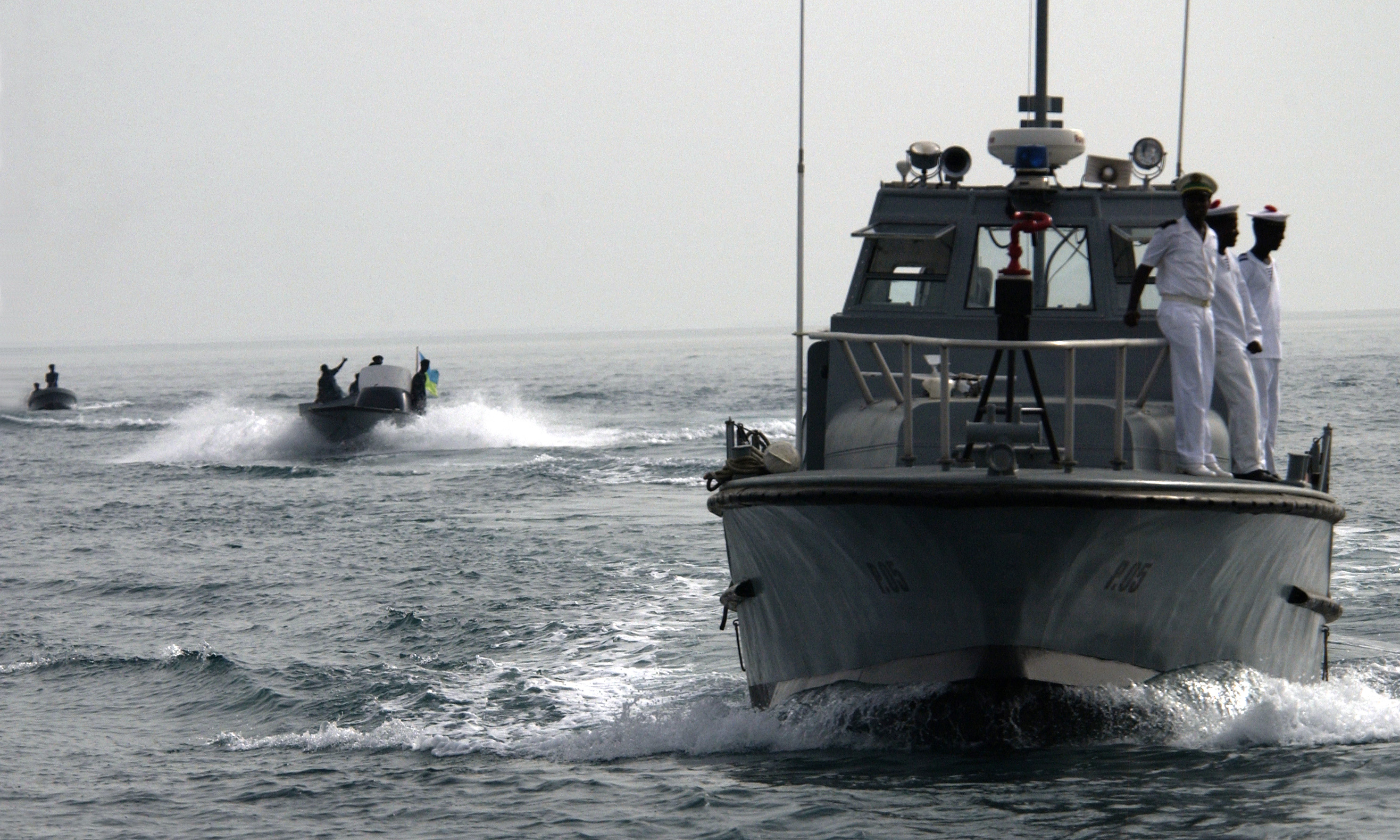 Djibouti City, Djibouti (June 15, 2006) - As part of a parade, one of the four former U.S. Coast Guard PT Boats leads a group of smaller Djiboutian vessels on the way into the port of Djibouti. The four boats were renamed under the Djiboutian flag as part of a U.S. gift to the Djiboutian Navy. The entire Djiboutian Navy gathered at the port of Djibouti for a celebration of the newly acquired boats. U.S. Navy photo by Mass Communication Specialist 2nd Class Roger S. Duncan (RELEASED)